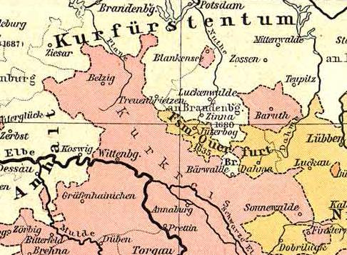 Map of the former district „Kurkreis“ (1554-1815) in Saxony, Germany. Today predominat part of Brandenburg.